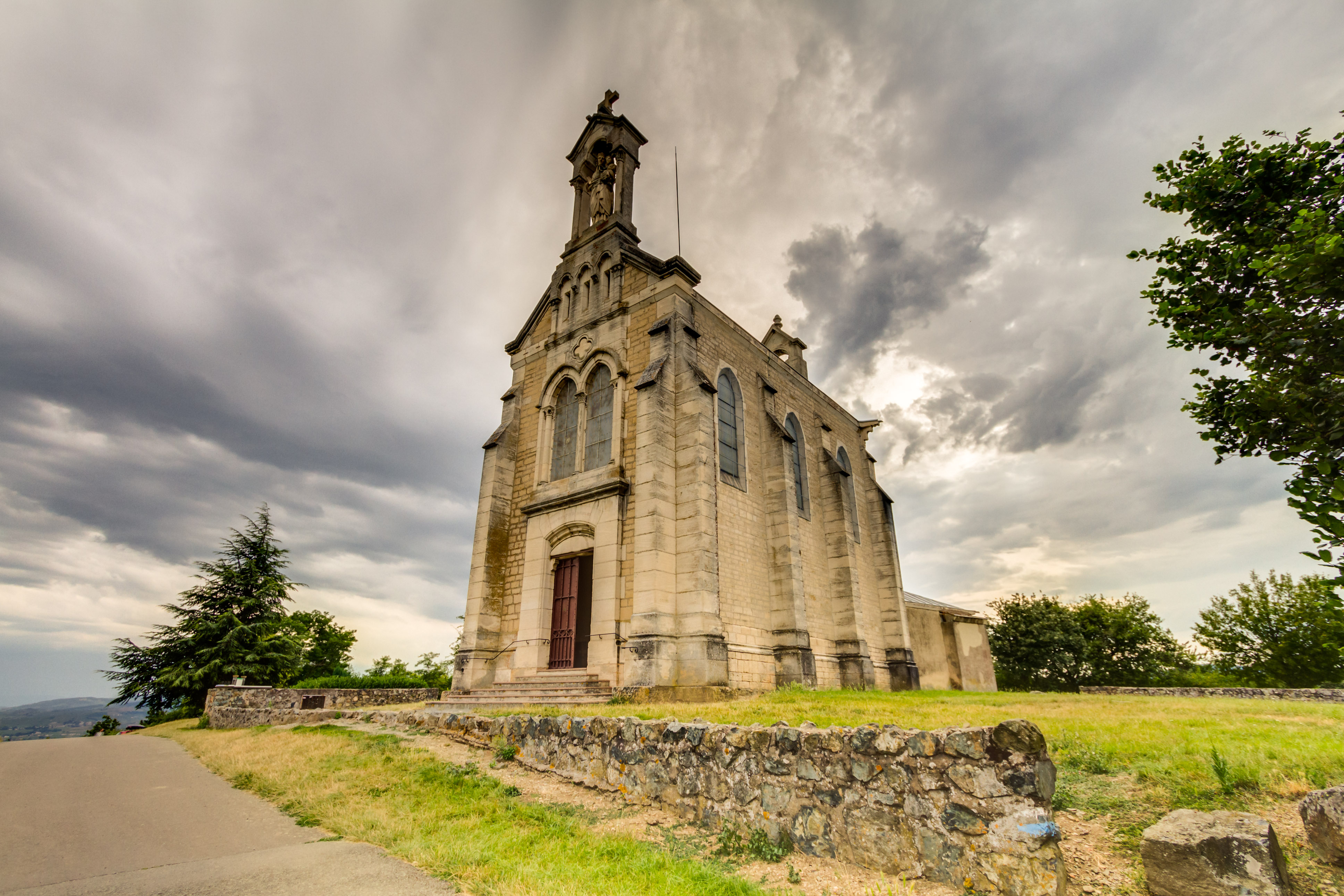 Notre-Dame aux Raisins chapel (Notre-Dame of grapes chapel), at the top of mount Brouilly, in Saint Lager, Rhône, east France. This picture is a blending of three exposures processed to enhance the dramatic mood given by the sky.